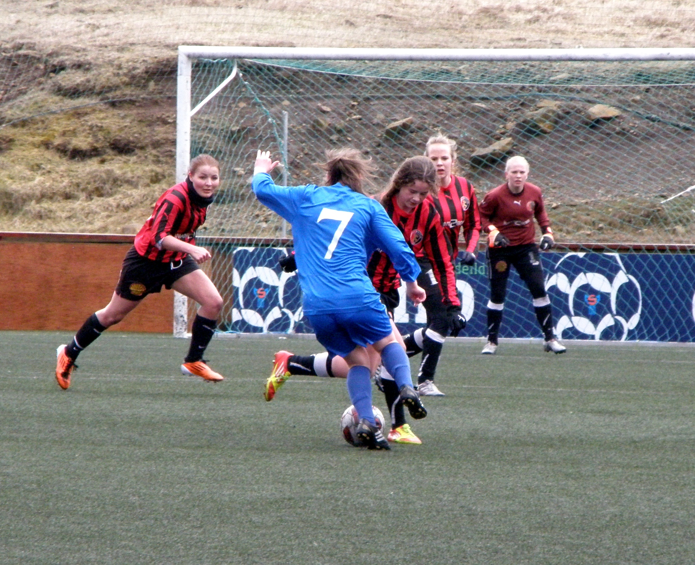 Football match in the women's Faroe Islands Cup 2012 between FC Suðuroy and HB Tórshavn. HB won the match 8-1.